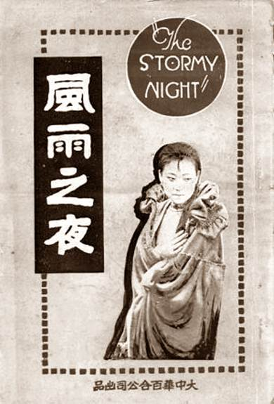 The Stormy Night, 1925 Chinese film directed by Zhu Shouju 朱瘦菊 for Dazhonghua Baihe Film Company